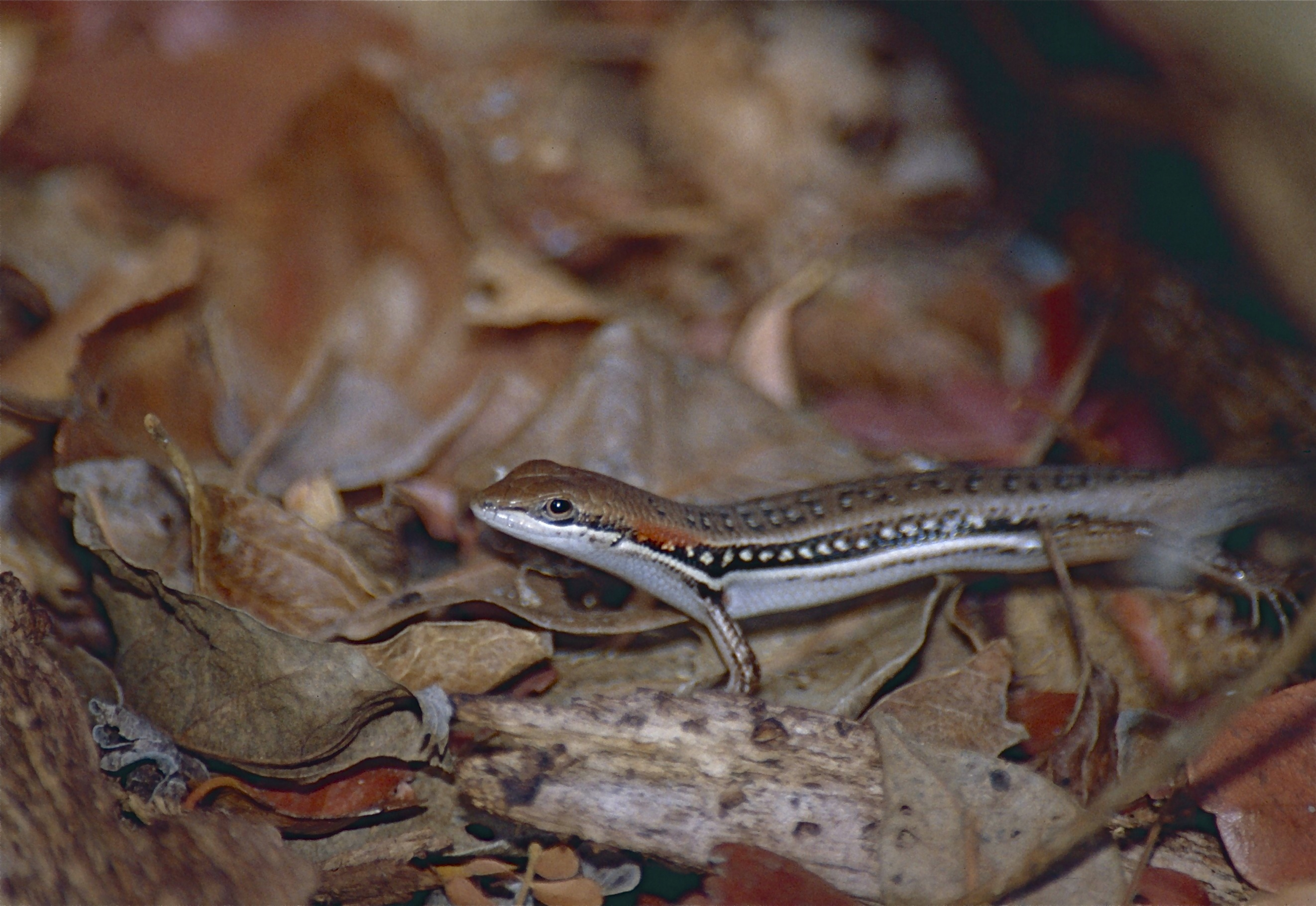 Kirindy Forest, MADAGASCAR Scanned Slide from 1998